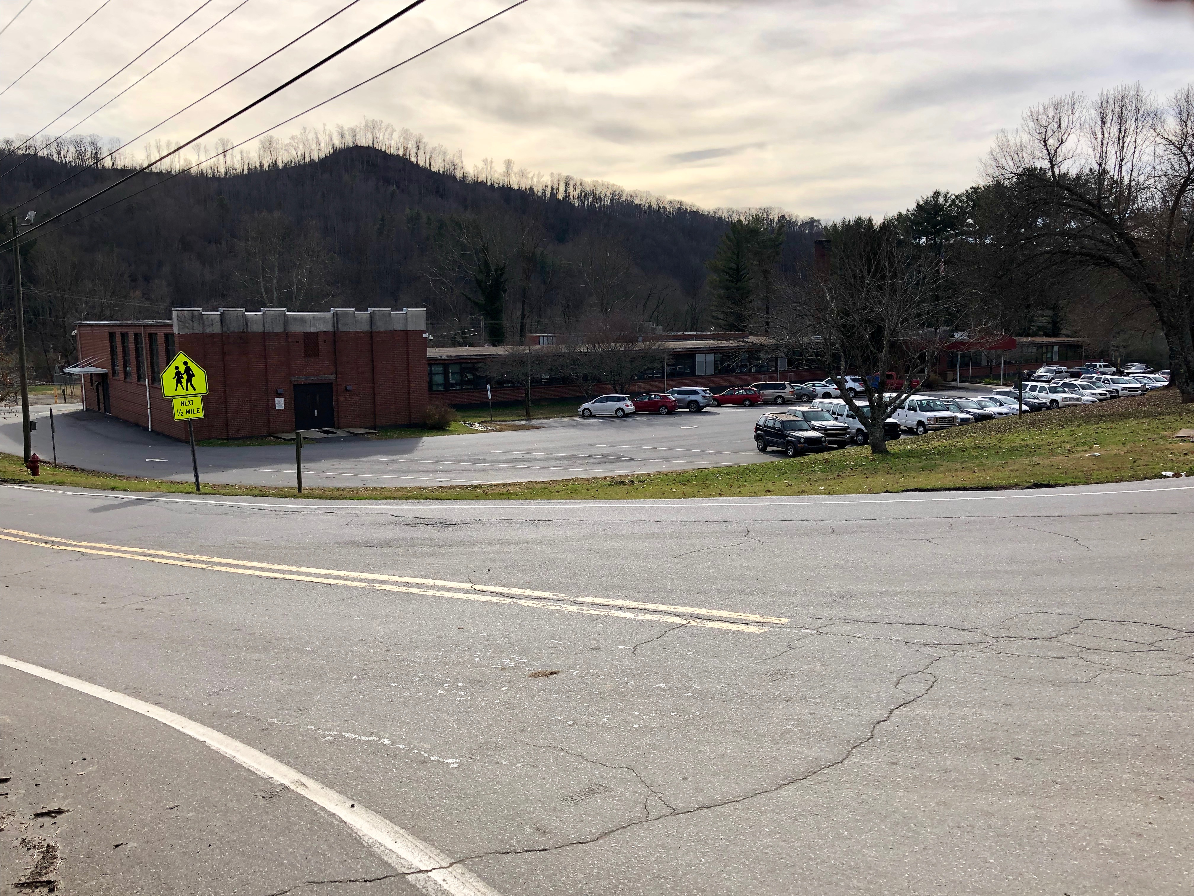 This is the former Scott's Creek Elementary School, located at the corner of Skyland Drive and Mineral Springs Road in Addie, North Carolina. The school was constructed in 1951 to consolidate the four schoolhouses in Scott's Creek Township, located at Addie, Balsam, Beta, and Willets. The building was used as an elementary school up through the 8th Grade up until 2001, when a new elementary school building was constructed nearby on Parris Branch Road. The building has been converted into the Jackson County School of Alternatives, which provides an alternative educational environment for special needs students.